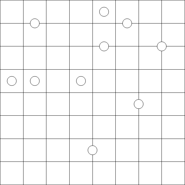 Tentai show grid